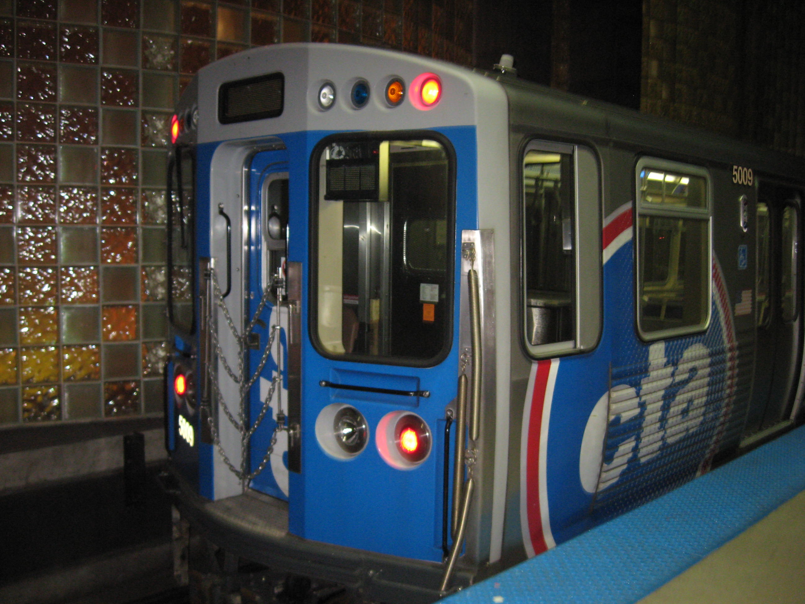 Car 5009 brings up the rear of a Chicago 'L' train at the O'Hare station on the CTA Blue Line.